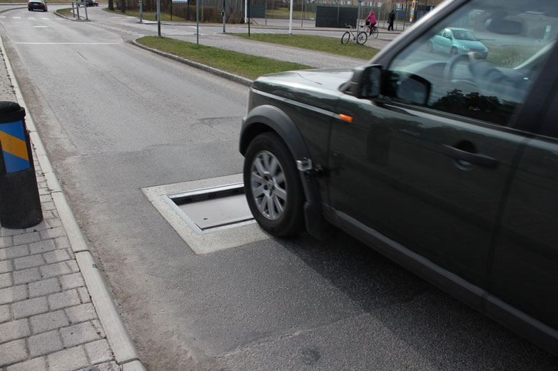 Actibump in operation